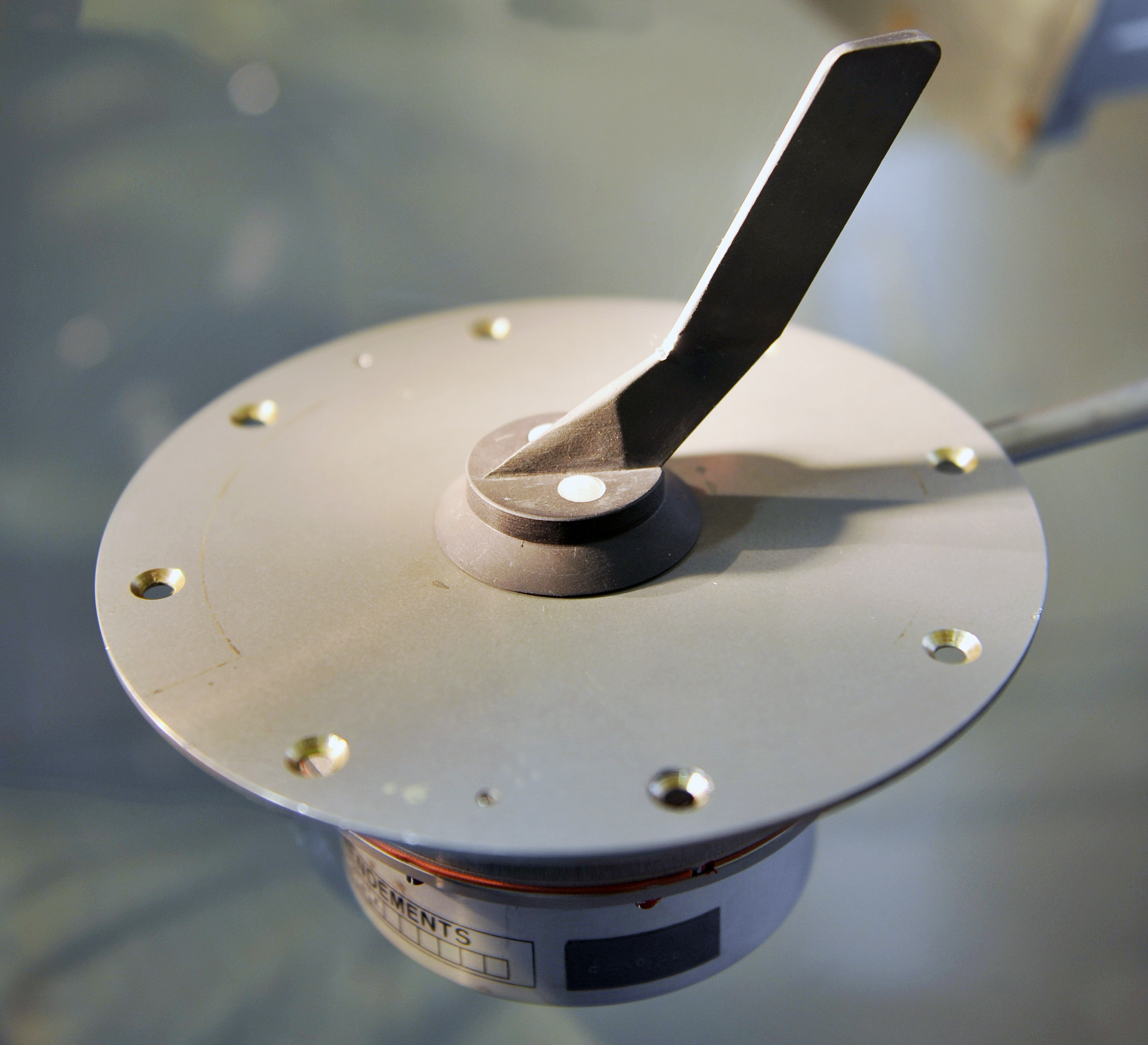 Angle of Attack Sensor, supplier Thomson-CSF (presented on an exhibition at Airport Bremen) sensor: 3 synchros range: ±62° accuracy: 0.2°